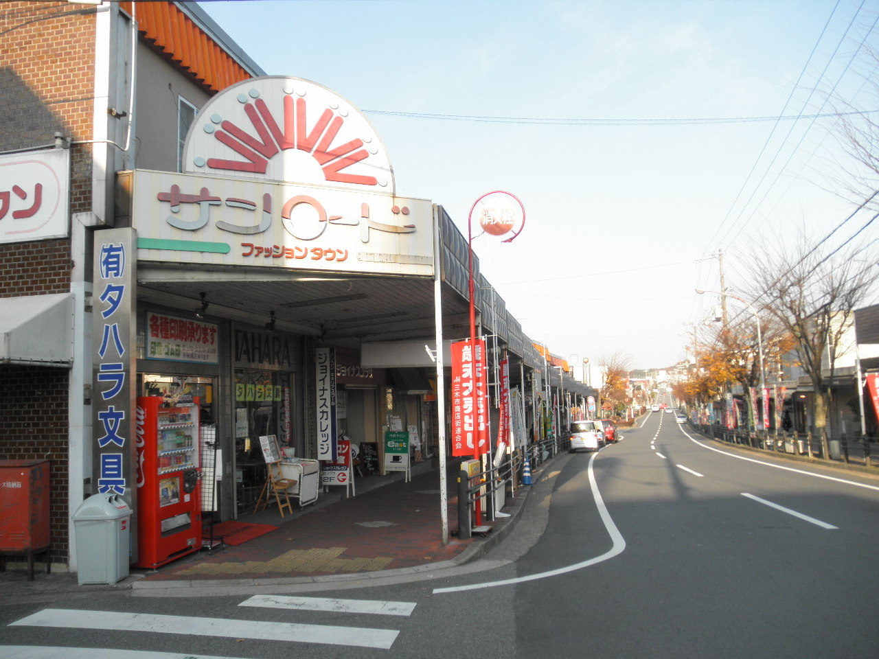 Sun Road in Midorigaokatown Mikicity Hyogopref